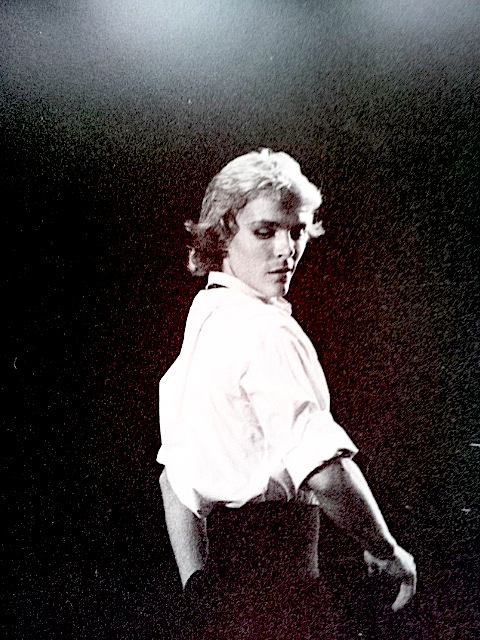 Johan Renvall performing a tango on stage in 1982